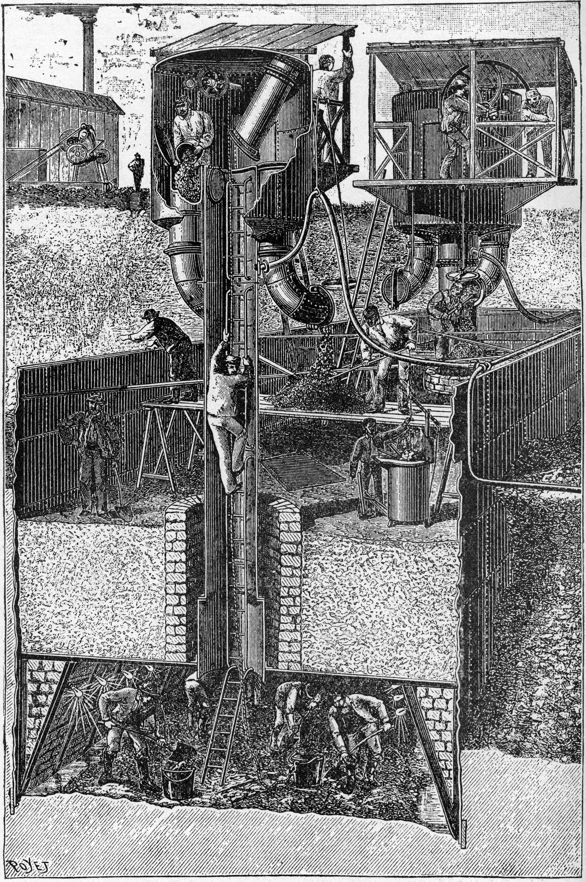 Eiffel Tower, Paris: Illustration of caisson for making foundations (these works took place c. 1887, print published in 1892).